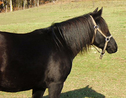 Lac La Croix Indian Pony mare - Akiwiki (Ojibway for - return to ones home land)